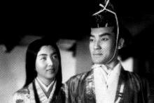 Ryūtarō Ōtomo and Chikako Miyagi in 1942 Japanese movie Oichinokata.